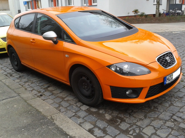 A orange Seat Leon FR from "Harz" in Hannover, Germany